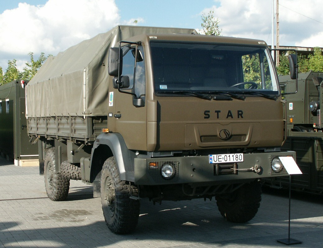 Polish Army Star 944 truck.